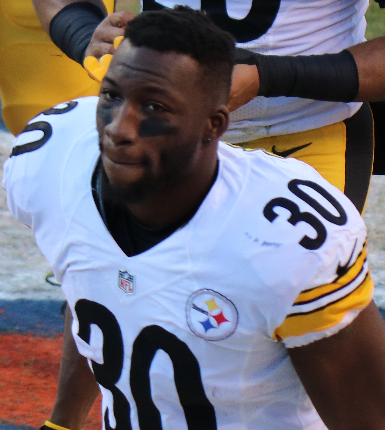 Jordan Todman, a player on the National Football League.